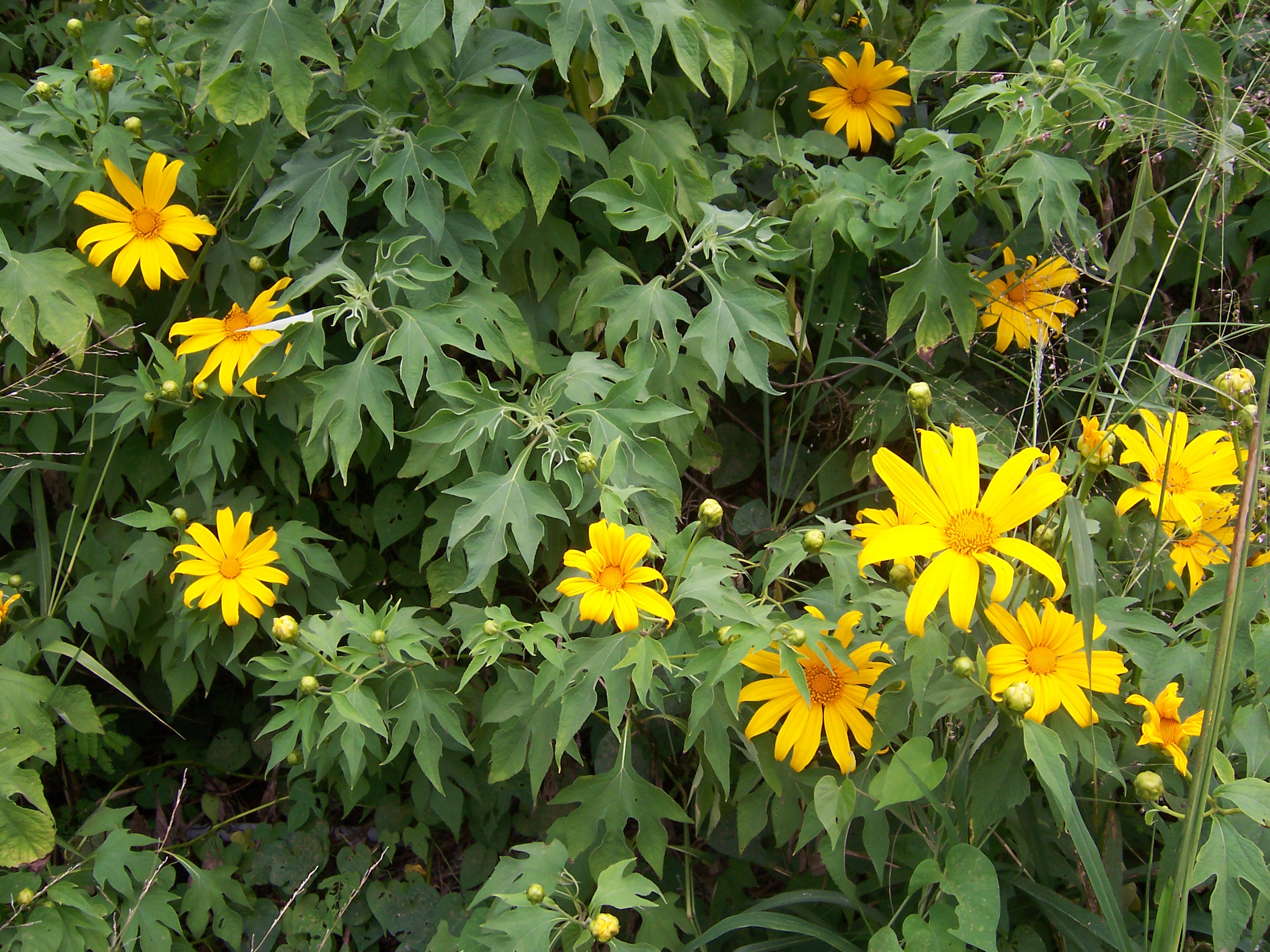 Tithonia diversifolia (leaves and flowers)